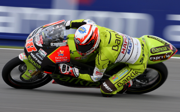 Nicolas Terol 2011 Brno 2